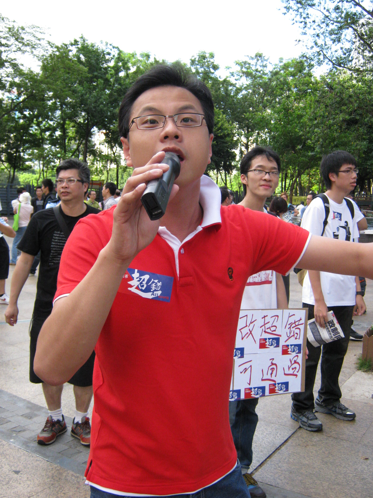 Edward Yum (Grassmud Ma) arguing with supporters of the 2012 Political Reform.